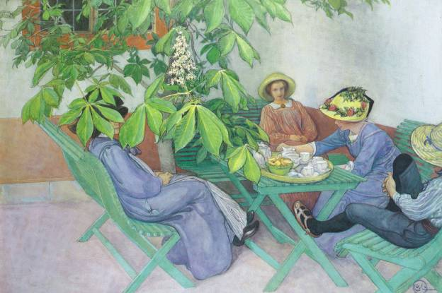 Under the chestnut tree (At tea)